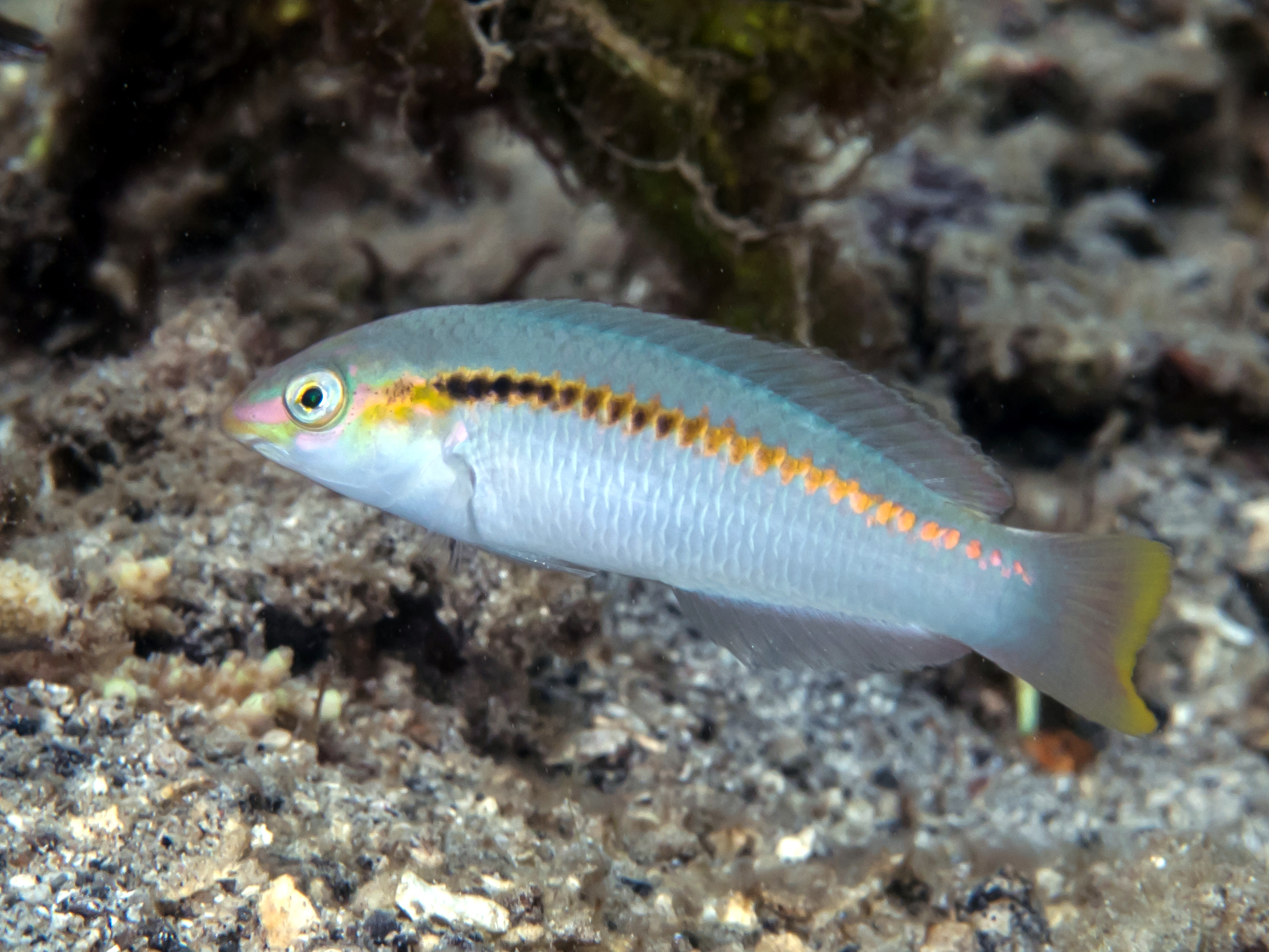 Lembeh, Indonesia - Zigzag wrasse (Halichoeres scapularis)